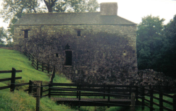 Lorn Furnace, Argyle, viewed from the leat.